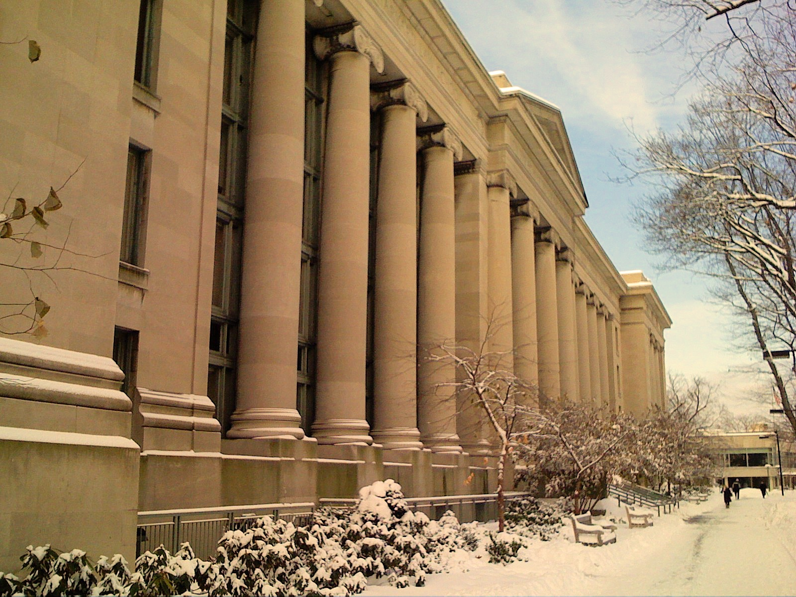 Harvard Law School Langdell Library in Cambridge, Mass.